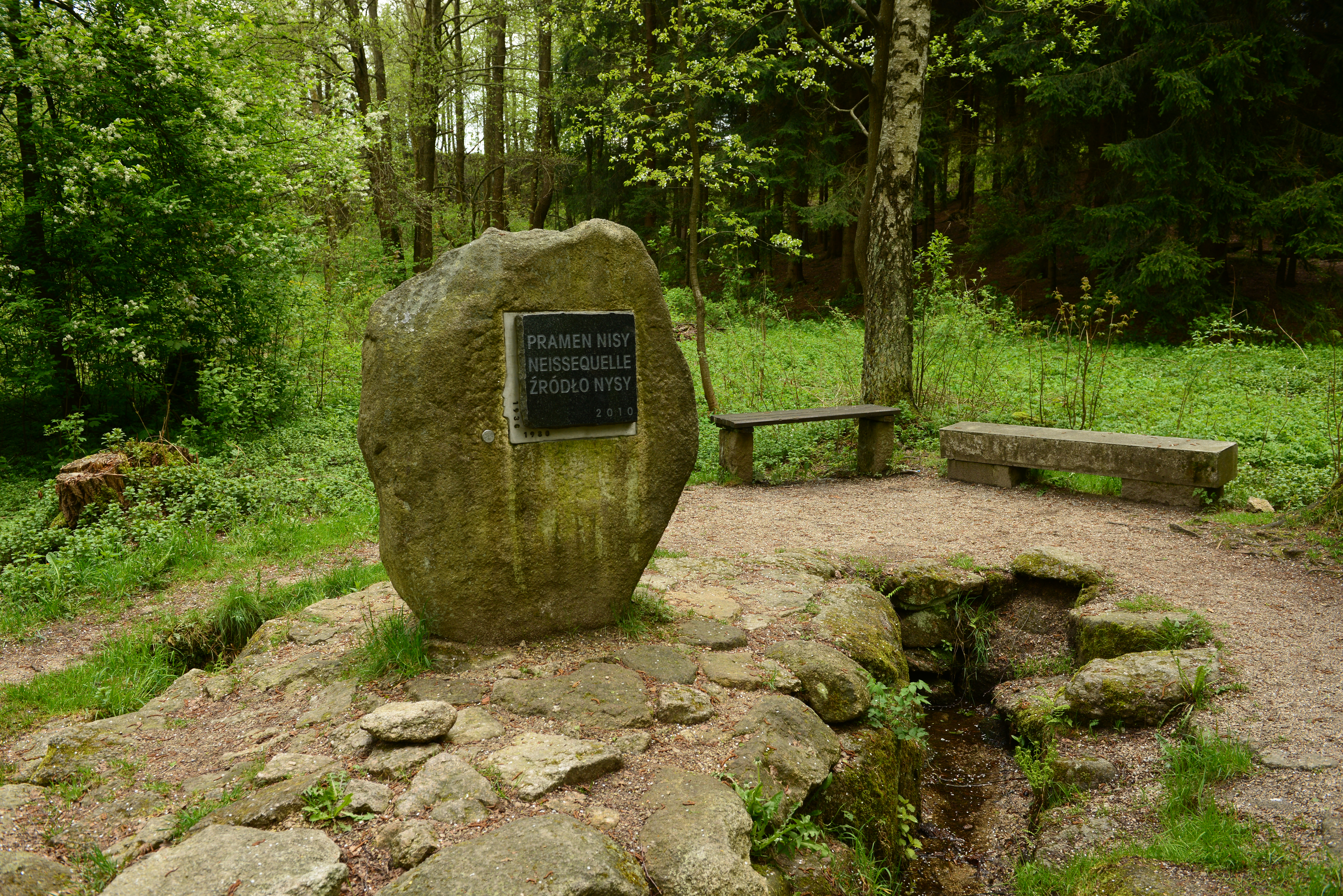 Source Lusatian Neisse between Smržovze and Nová Ves nad Nisou